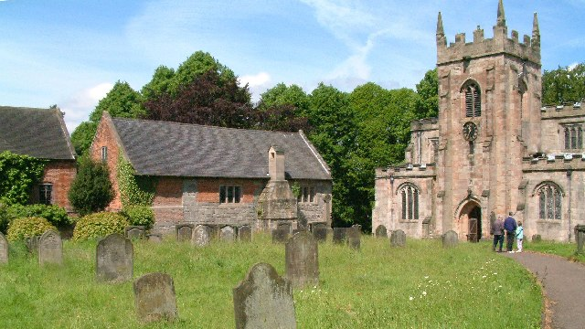 Part of SS Mary and Barlok parish churchyard, Norbury, Derbyshire. Left and centre is the Old Manor house, parts of which are 14th-century. On the right is the parish church.